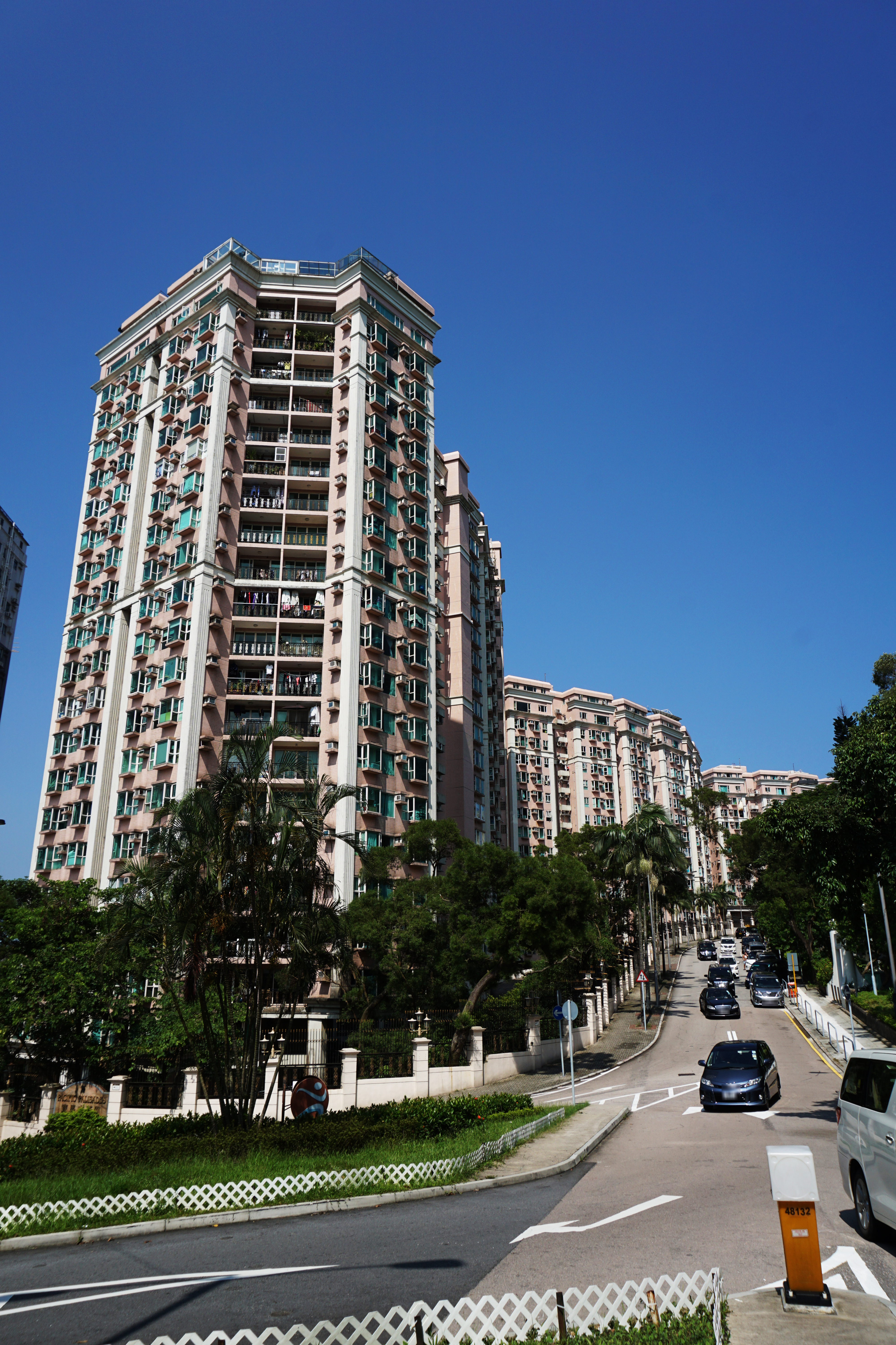 Pacific Palisades in Braemar Hill, Hong Kong.